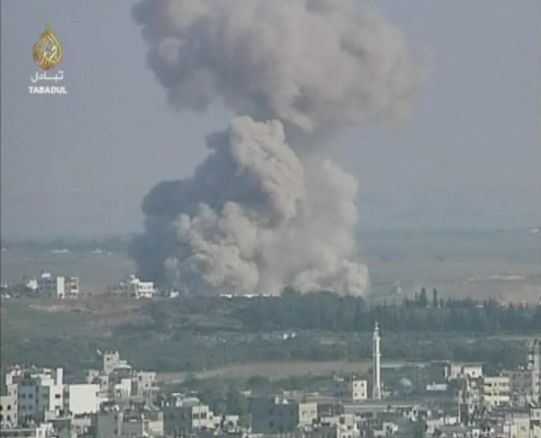 An Israeli strike caused a huge explosion in residential area in Gaza. This is during the Israeli assault on Gaza 08-09 Day 17.